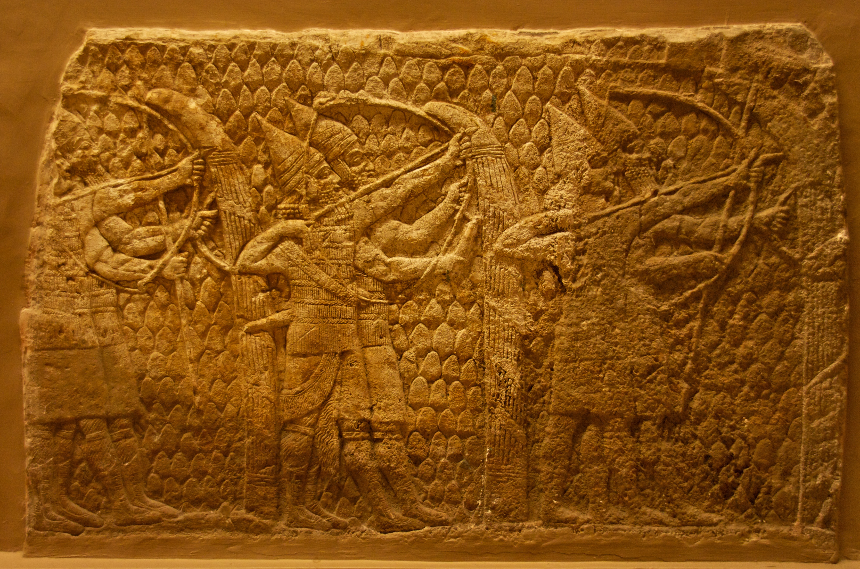 Heavy-armed archers in action. Assyrian, about 700-692 BC. From Nineveh, South-West Palace. These archers, the front one of whom is beardless, possibly an enuch, are each accompanied by a soldier whose duty it is to hold the tall shield in position and guard against any enemies who come too close. WA 124776.